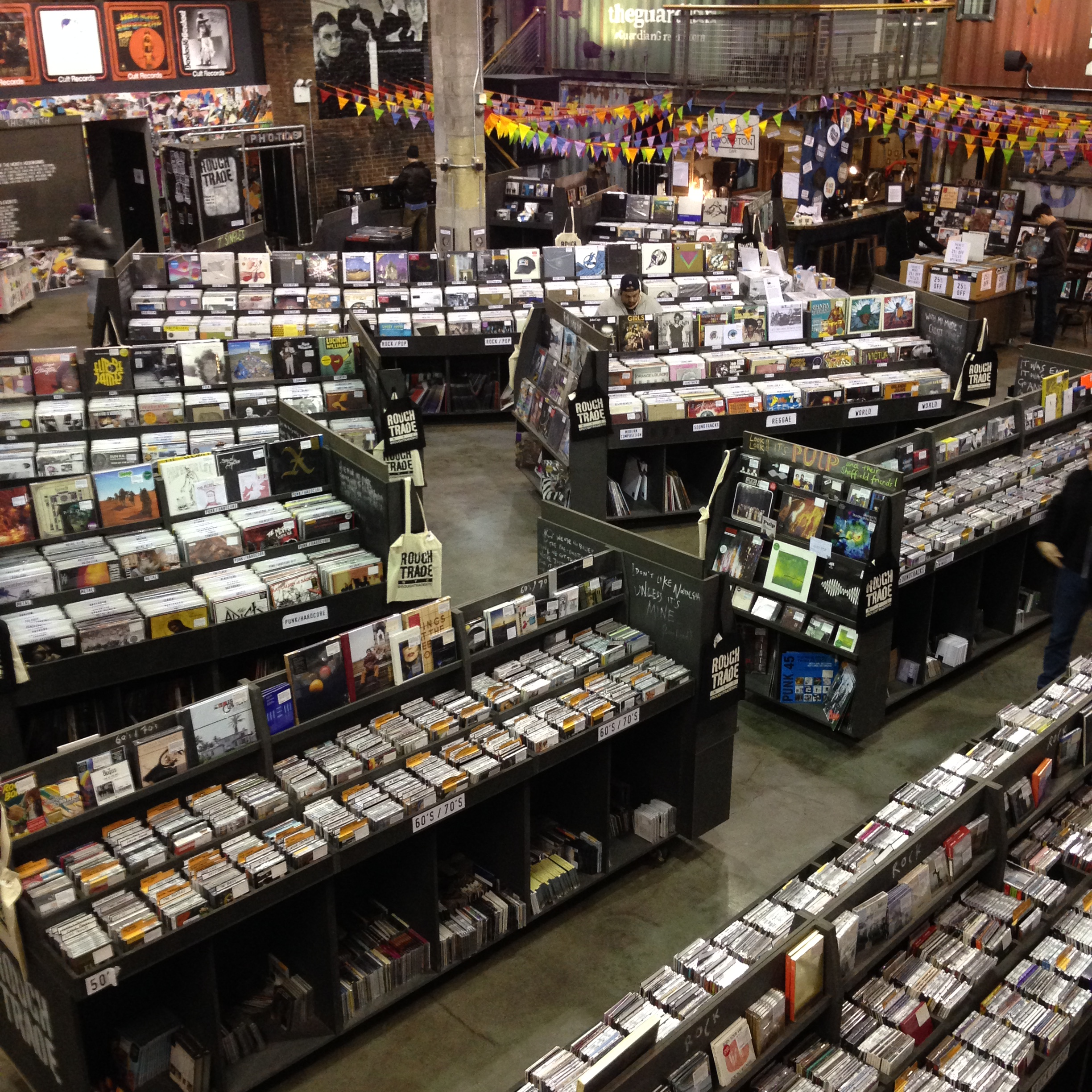 This is the Rough Trade record store in NYC.